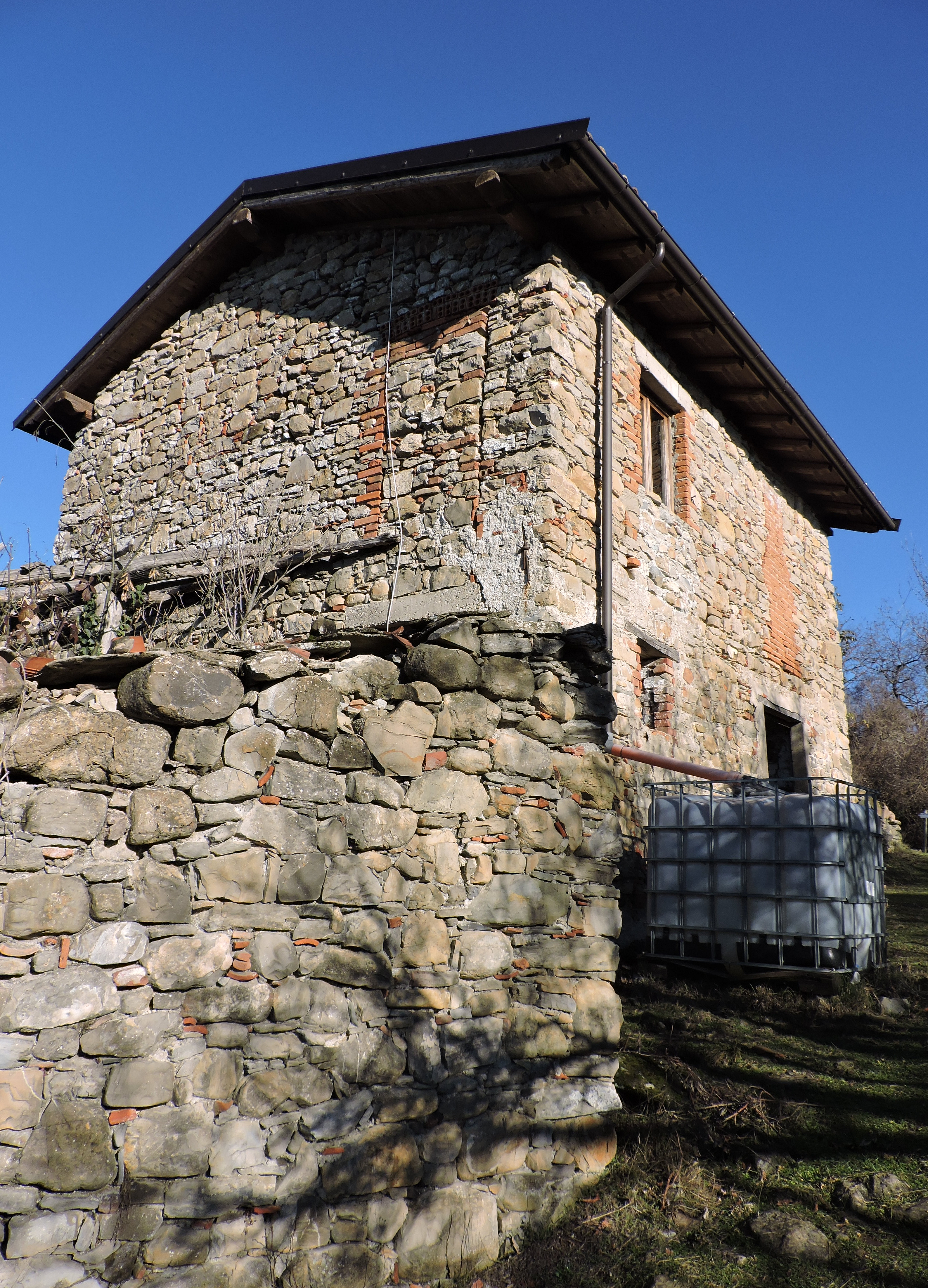 Rivarossa (Borghetto di Borbera): CAI mountain shelter